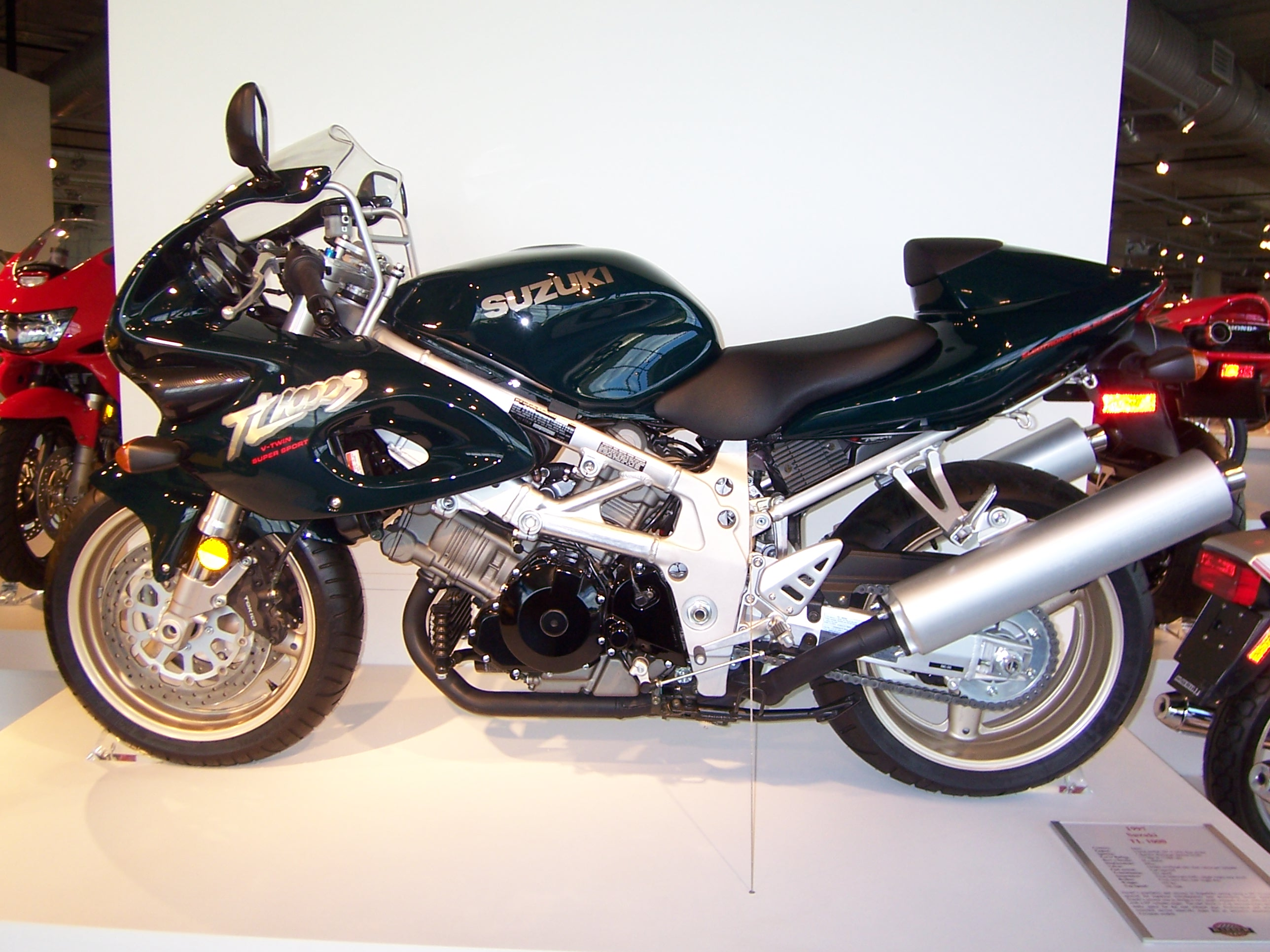 Barber Motorcycle Museum - Oct 22 2006 (599) 1997 Suzuki TL1000S / More Description is here